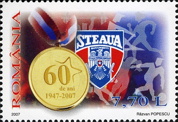 Stamps of Romania, 2007